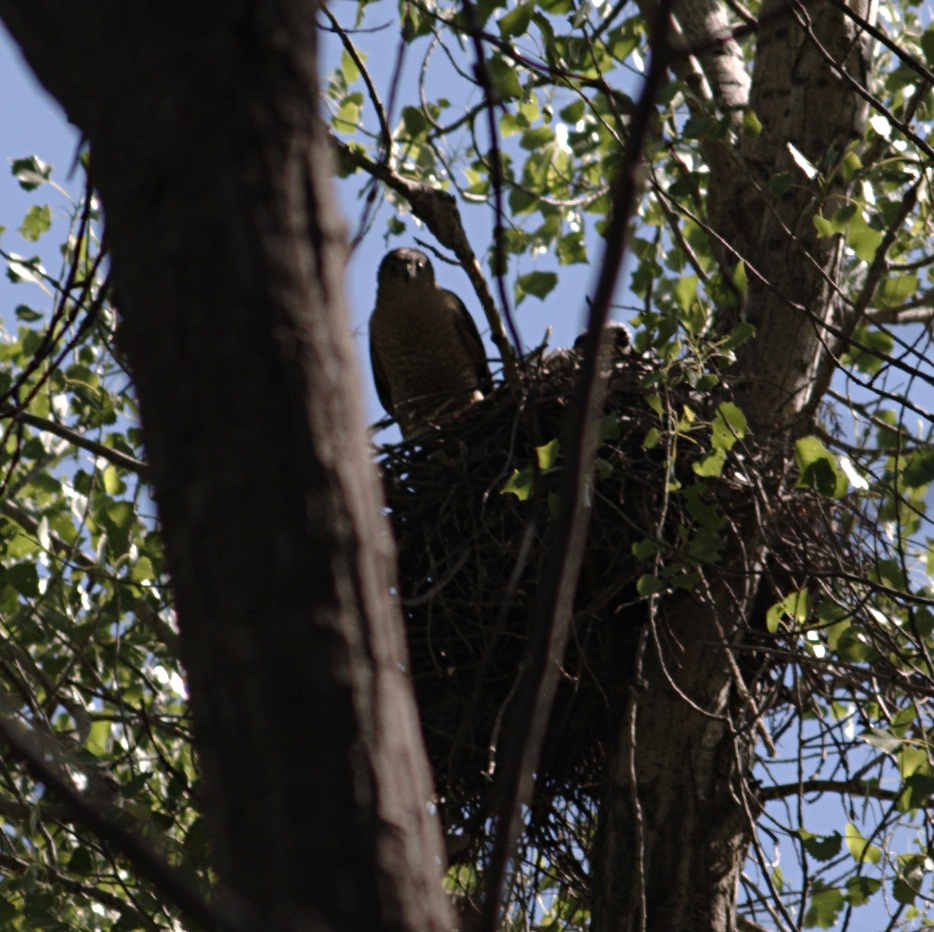 Adult Cooper's Hawk, Accipiter cooperii", at nest. Nambé, New Mexico.